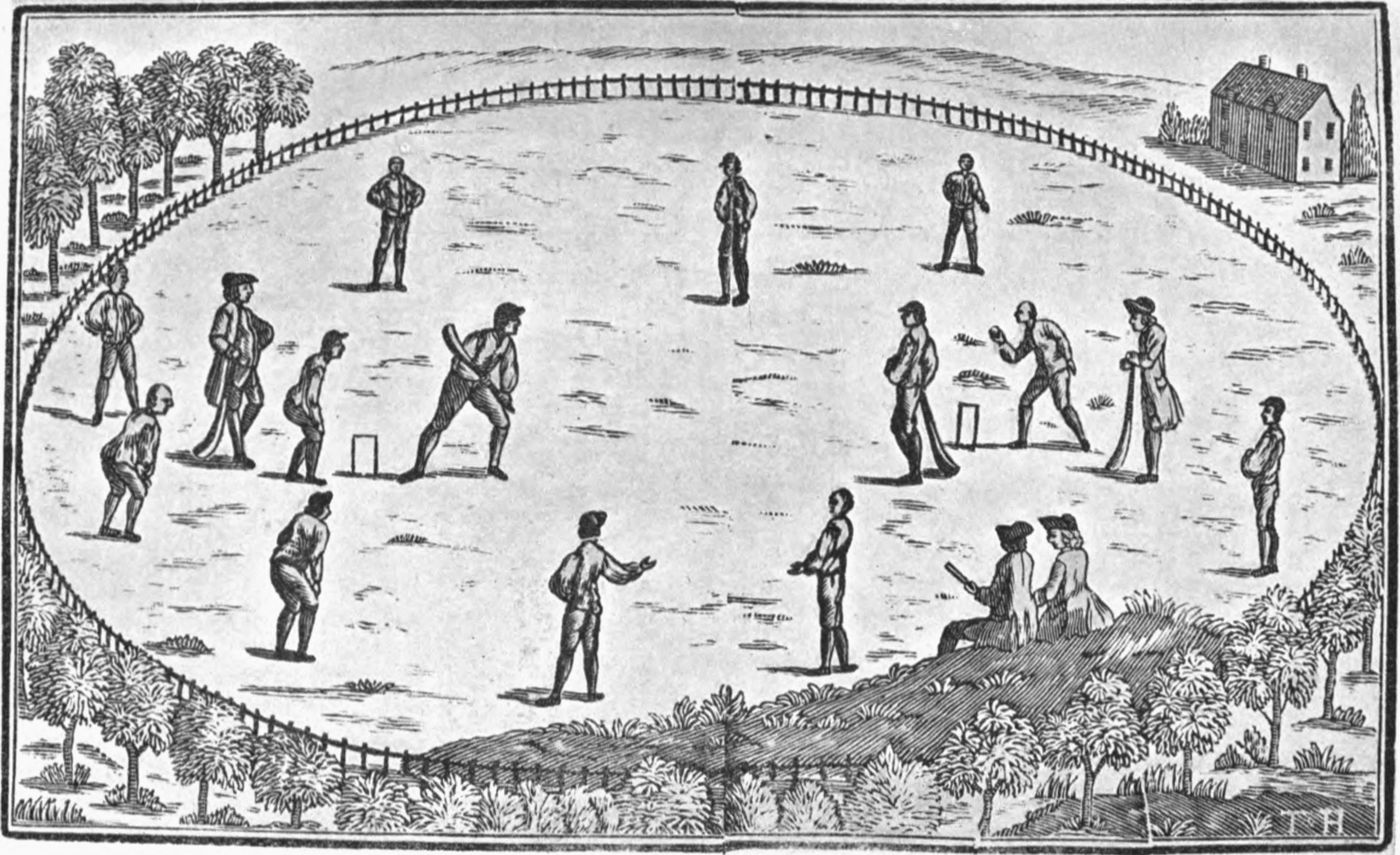 THE VINE GROUND AT SEVENOAKS IN 1780 (From and engraving in the collection of Mr. A. J. Gaston) scanned image from book "The Hambledon Men" by Edward Verrall Lucas